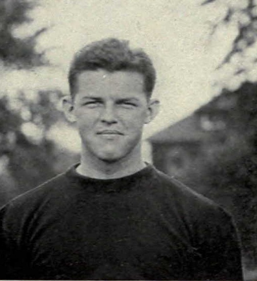 Photograph of Bernard Kirk This work is in the public domain because it was published in the United States between 1925 and 1963 and although there may or may not have been a copyright notice, the copyright was not renewed. Unless its author has been dead for the required period, it is copyrighted in the countries or areas that do not apply the rule of the shorter term for US works, such as Canada (50 pma), Mainland China (50 pma, not Hong Kong or Macao), Germany (70 pma), Mexico (100 pma), Switzerland (70 pma), and other countries with individual treaties. See Commons:Hirtle chart for further explanation. This work is in the public domain in the United States because it was published in the United States between 1925 and 1977, inclusive, without a copyright notice. See Commons:Hirtle chart for further explanation. Note that it may still be copyrighted in jurisdictions that do not apply the rule of the shorter term for US works (depending on the date of the author's death), such as Canada (50 p.m.a.), Mainland China (50 p.m.a., not Hong Kong or Macao), Germany (70 p.m.a.), Mexico (100 p.m.a.), Switzerland (70 p.m.a.), and other countries with individual treaties.